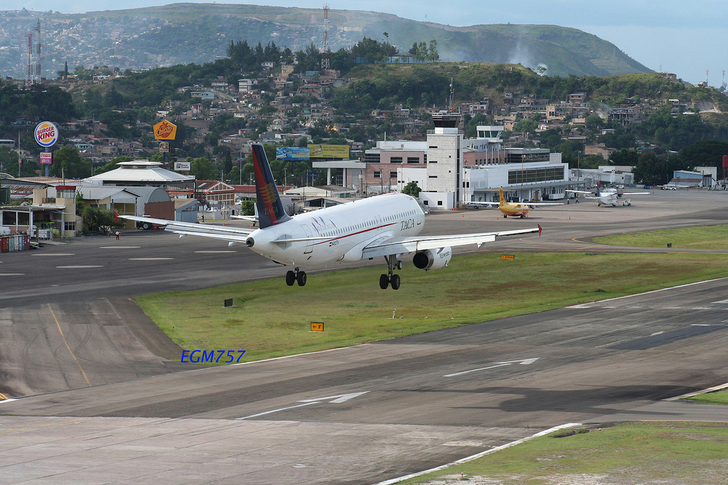 Taca Airbus A320 Landing at Toncontin .